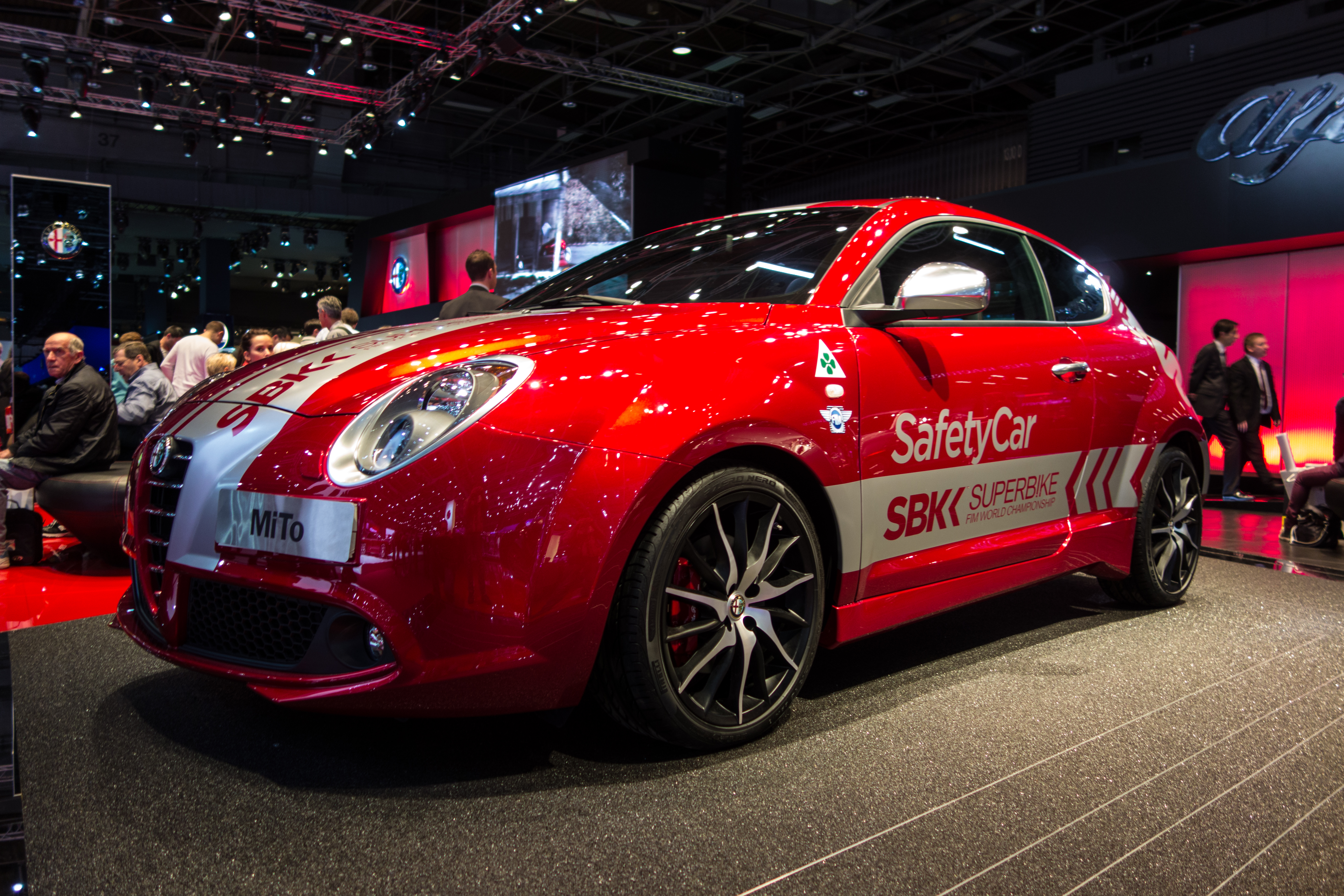 Mondial De L'automobile Paris 2012 | Paris Motor Show 2012